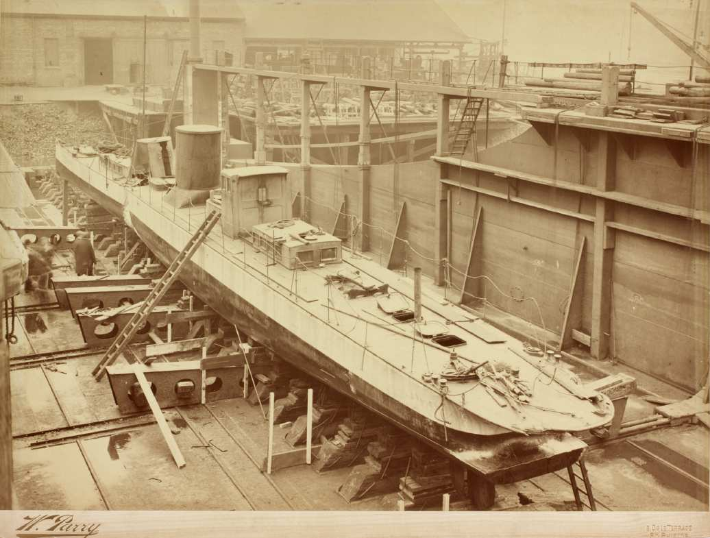 A photograph showing 'Turbinia' in the dock at Wallsend, taken by W. Parry in 1907. She had been damaged during the launching of a ship at Robert Stephenson's shipyard on the other side of the Tyne. The damage is visible on Turbinia's side. This was repaired in time to steam alongside the liner 'Mauretania' when she was launched later that year. Reference: TWCMS: 2003.423 (Copyright) We're happy for you to share this digital image within the spirit of The Commons. Please cite 'Tyne & Wear Archives & Museums' when reusing. Certain restrictions on high quality reproductions and commercial use of the original physical version apply though; if you're unsure - for image licensing enquiries please follow this link